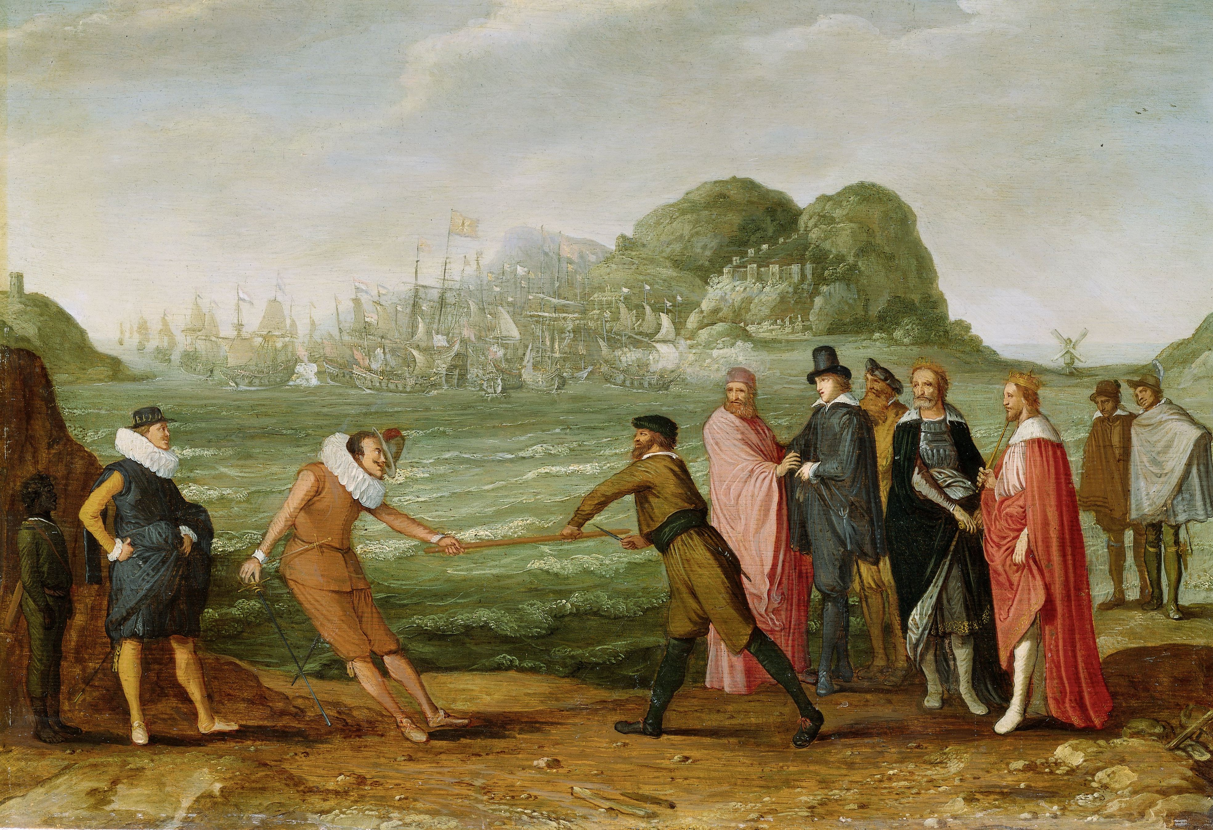 Allegory on the victory by the Dutch over the Spanish fleet at Gibraltar, 25 April 1607. On the beach a Dutchman and a Spaniard fight each other over a stick, while an Englishman and a Venetian are watching on. In the background a navale battle takes place.